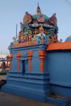 Vallam cholisvarar temple வல்லம் சோளீசுவரர் கோயில்